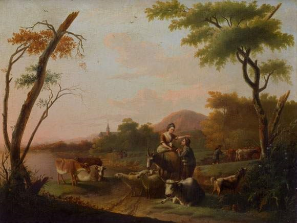 Villager in between her animals speaking with a shepherd, 49,5x66cm, oil on panel